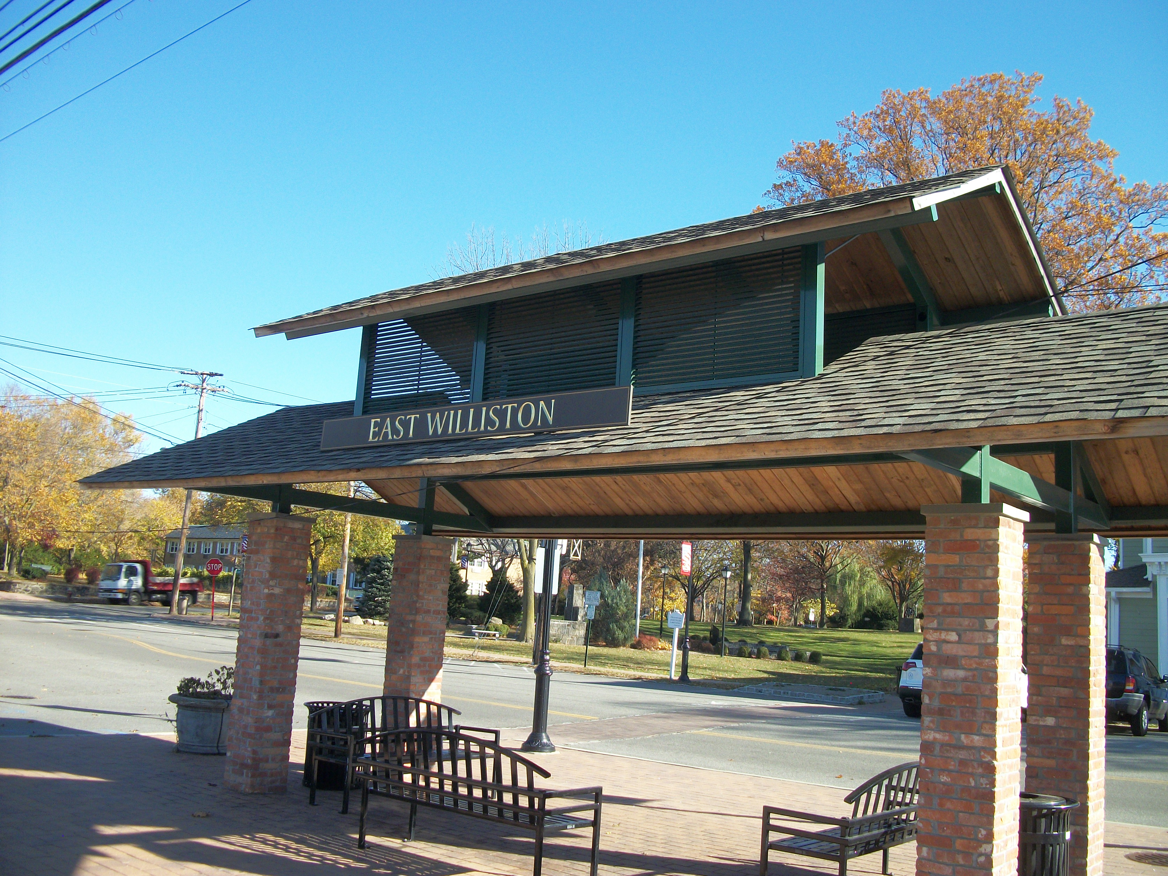 Close-up view of the decorative open shelter that currently stands as the substitute for the original Victorian station house of East Williston LIRR Station in East Williston, New York.